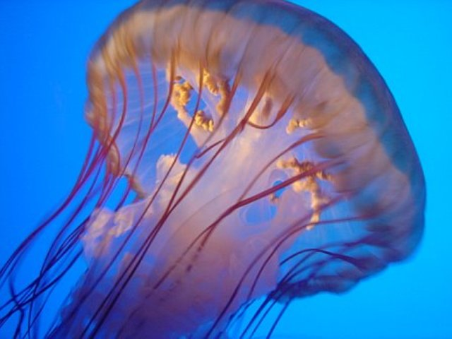 Photo of Jellyfish taken at Boston Aquarium